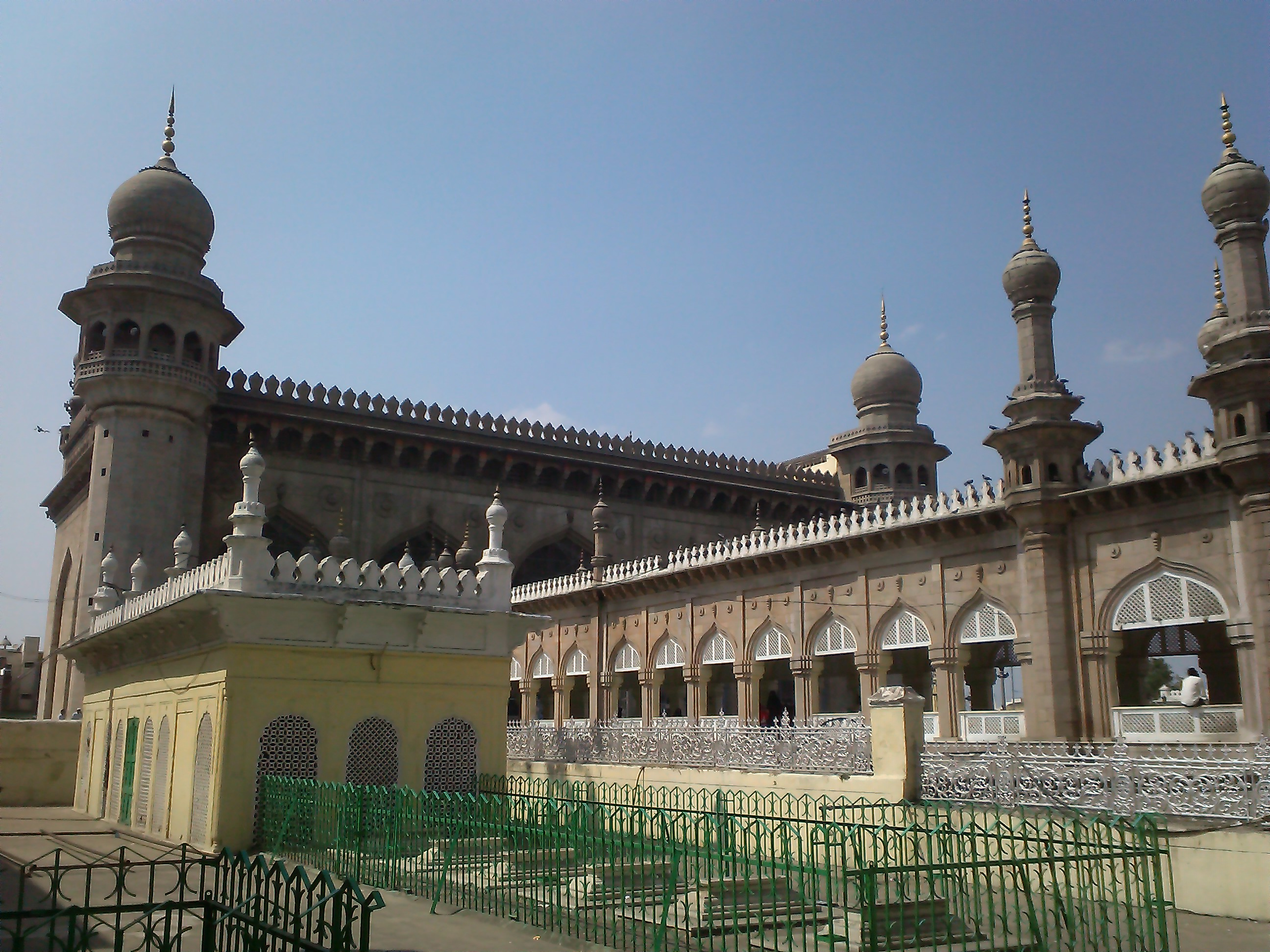 Grave Complex in the premises of Macca Masjid.